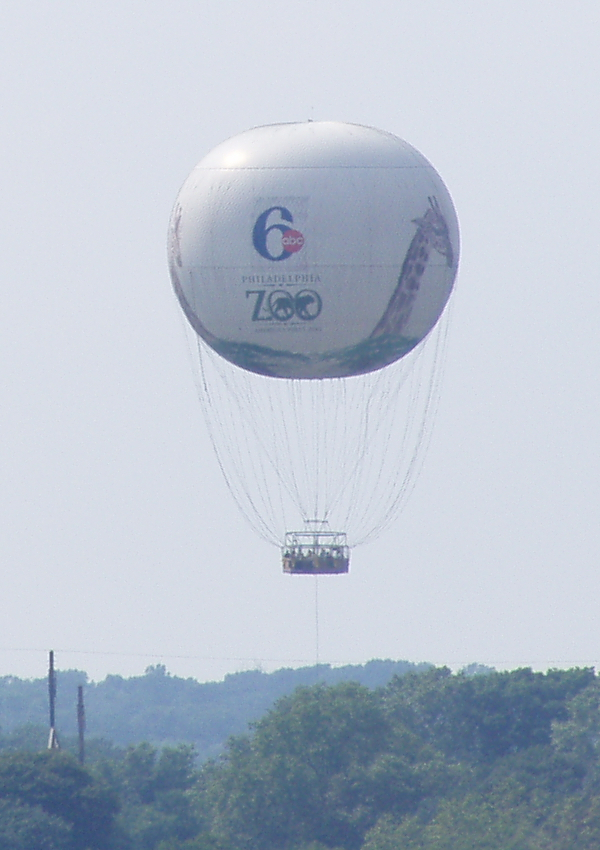 Taken in Philadelphia, Pennsylvania, in September 2003. The Channel 6 Zooballoon flies with passengers above the Philadelphia Zoo.